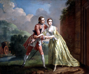 Robert Lovelace Preparing to Abduct Clarissa Harlowe